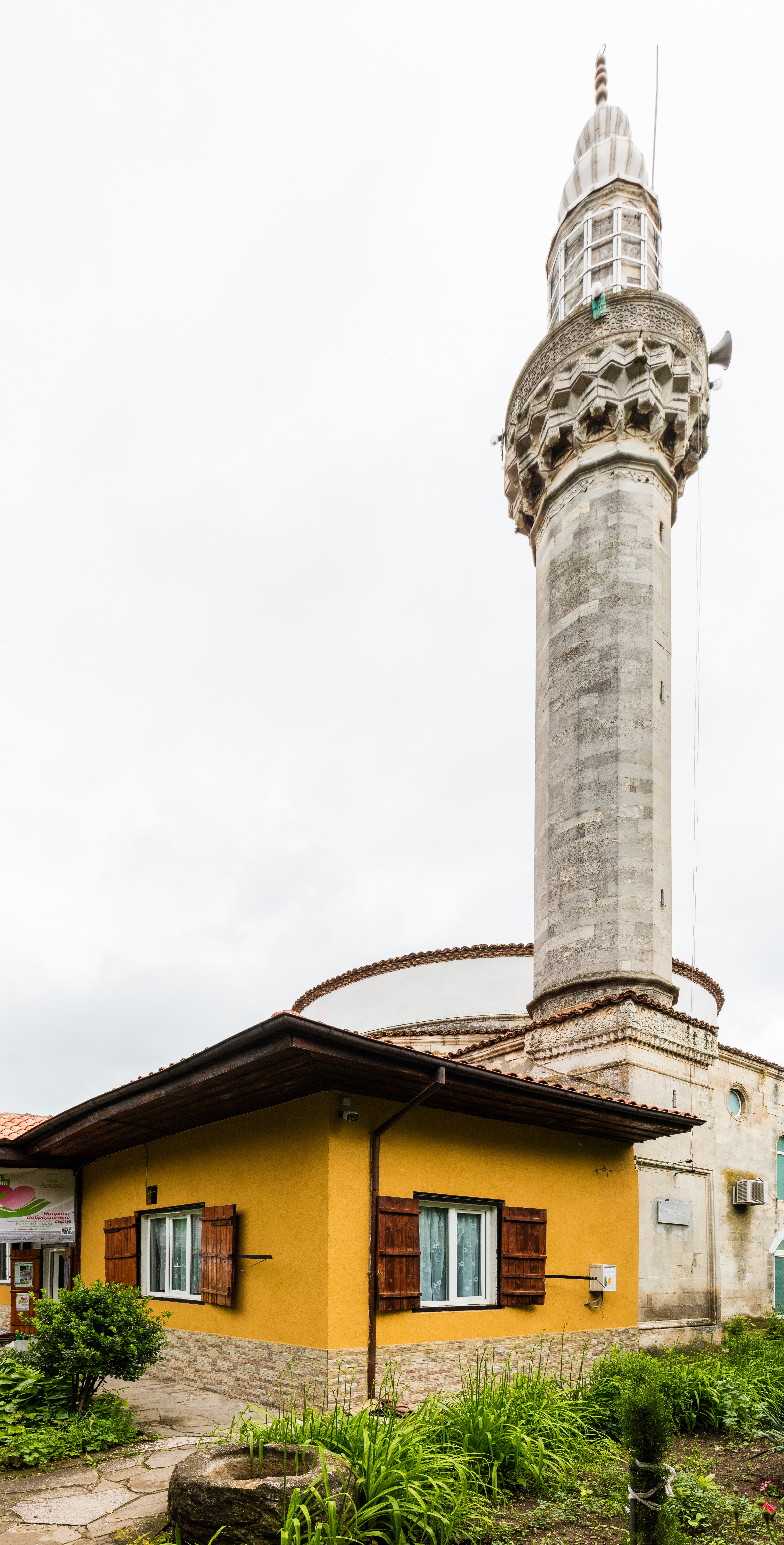 Ahmet Bey Mosque, Razgrad, Bulgaria